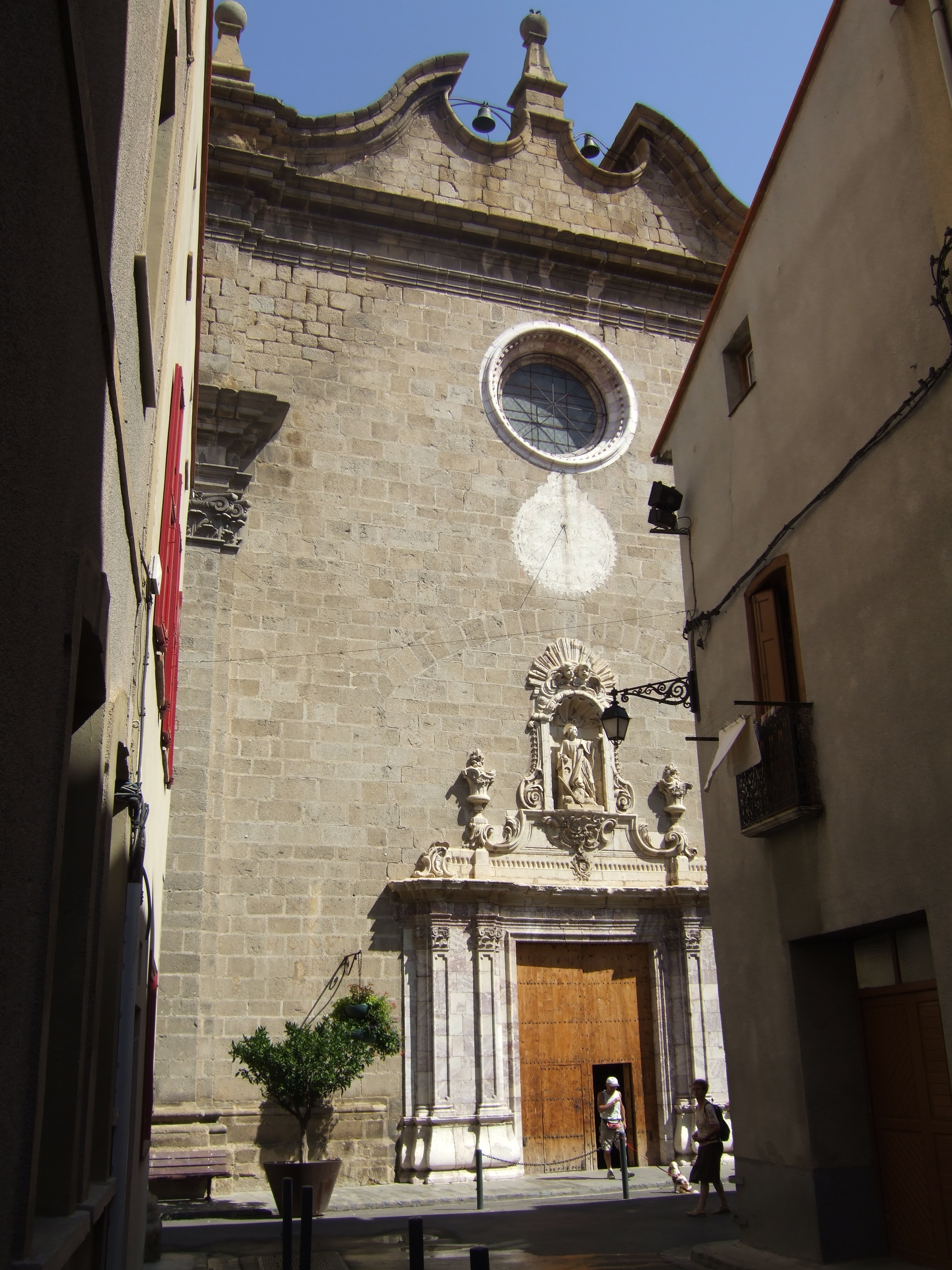 Church of St. Andrew at Ille-sur-Têt (Languedoc_Roussilion France)